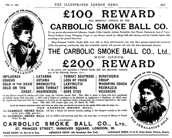 Advertisement for the Carbolic Smoke Ball Co, after losing a case in the Court of Appeal.